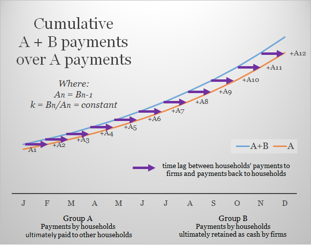 This is a visual example of the A+B Theorem.